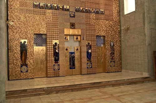 Biserica Schimbarea la față, Cluj-Napoca (Silviu Oravitzan)